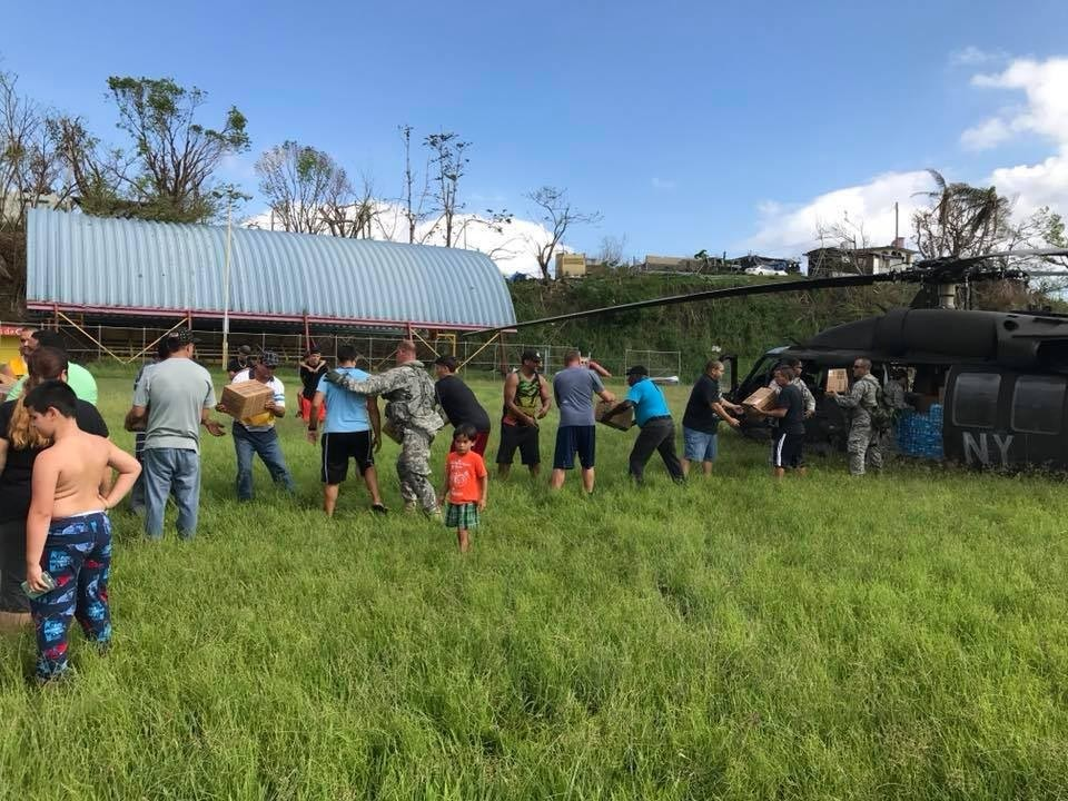 Local residents and Soldiers from the New York Army National Guard's 3rd Battalion and the 442nd Military Police Company unload aid from a UH-60 Black Hawk helicopter during a mission in Ciales, Puerto Rico on Oct. 11, 2017. Five Soldiers from the 442nd MP Company provided security while UH-60s conducted three trips with five pallets of water and six pallets of MREs.The battalion deployed 60 Soldiers and four UH-60 Blackhawk helicopters to Puerto Rico to conduct relief missions in the aftermath of Hurricane Maria. (Courtesy 3rd 142nd Assault Helicopter Battalion Facebook)